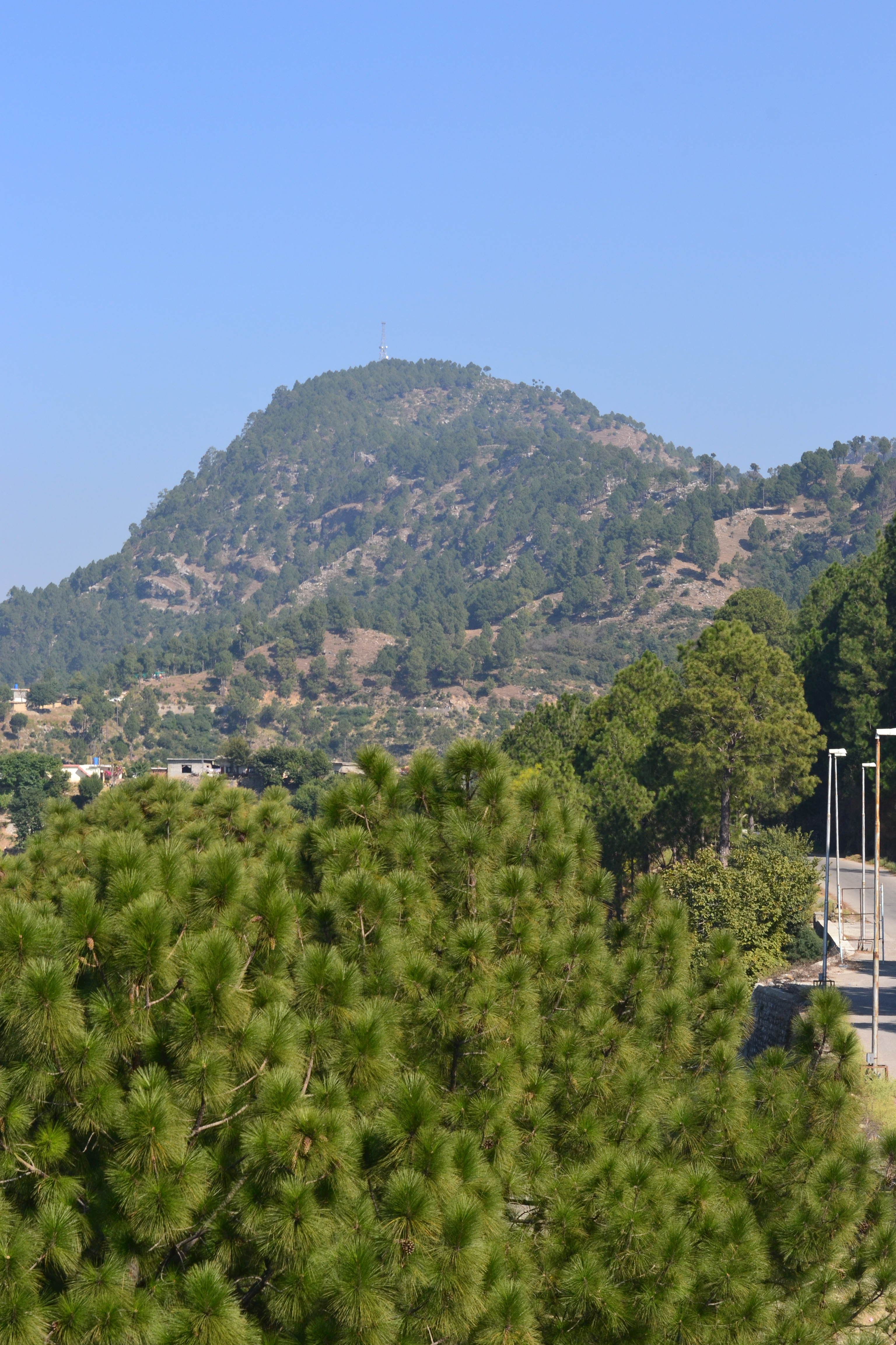 Tilla Charouni is a 1604 meter high peak. It is the highest peak in Margalla range.